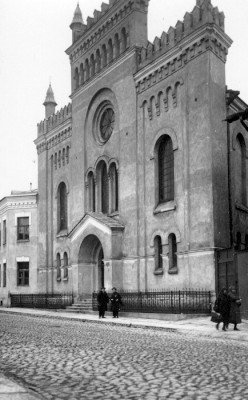 Choral synagogue of Tallinn, built in 1885, destroyed during WWII.